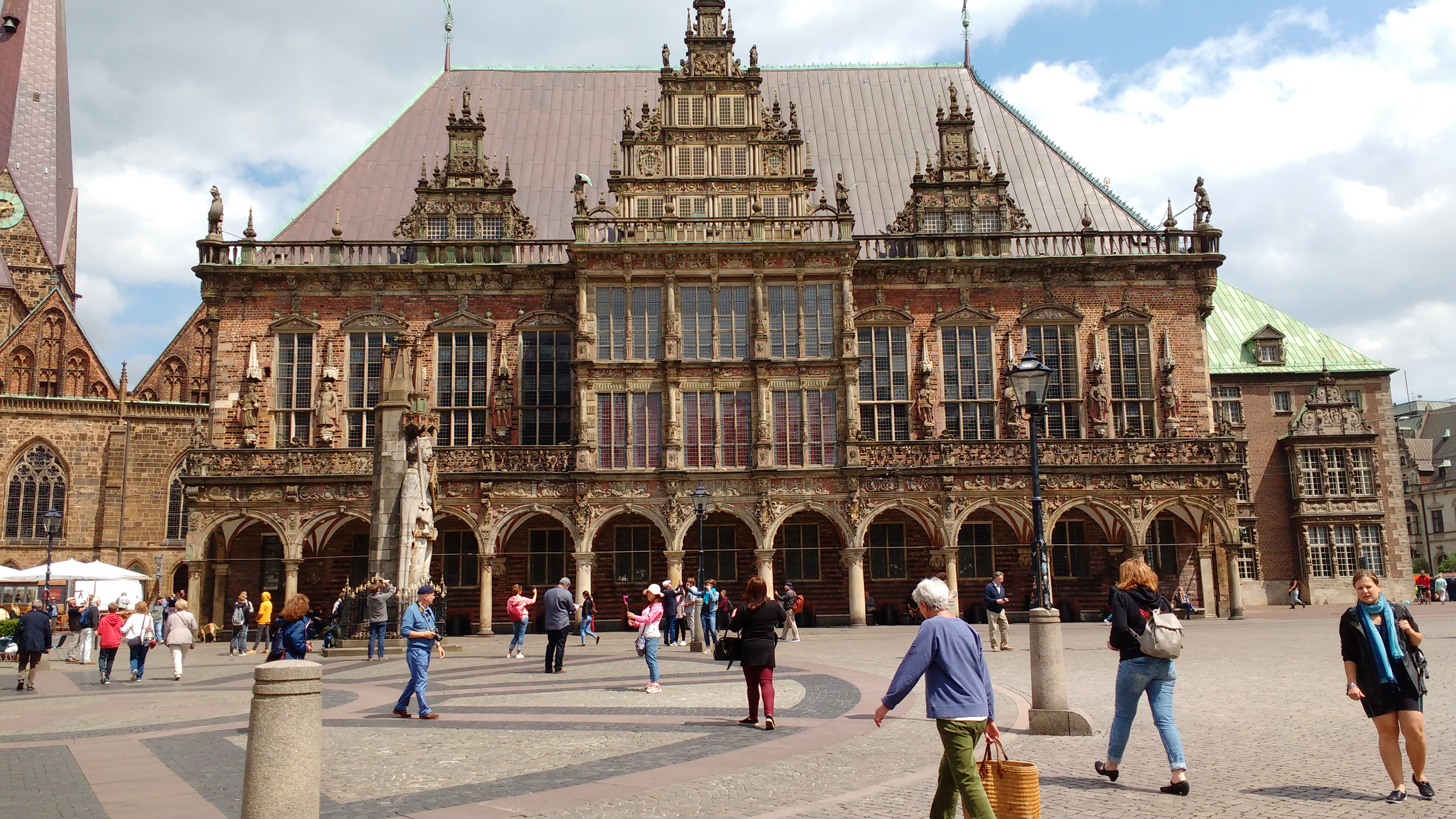 Esteban47map images Rathaus Bremen